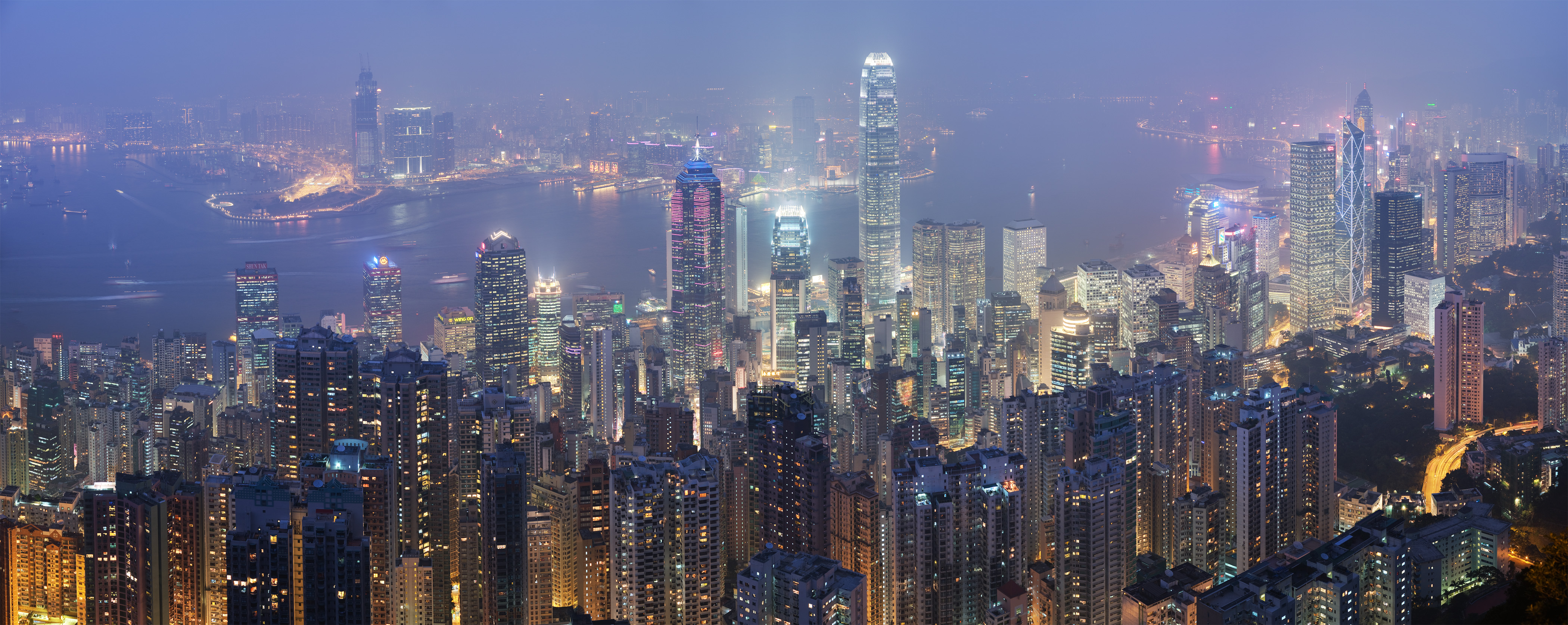 A 26 segment x 3 exposure (78 frames in total) panoramic view of the Hong Kong skyline taken from a path around Victoria Peak. Taken by myself with a Canon 5D and 85mm f/1.8 lens at f/5.6.